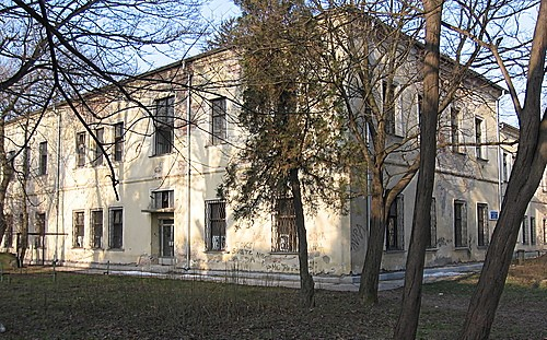 The building of Teacher School in Jagodina